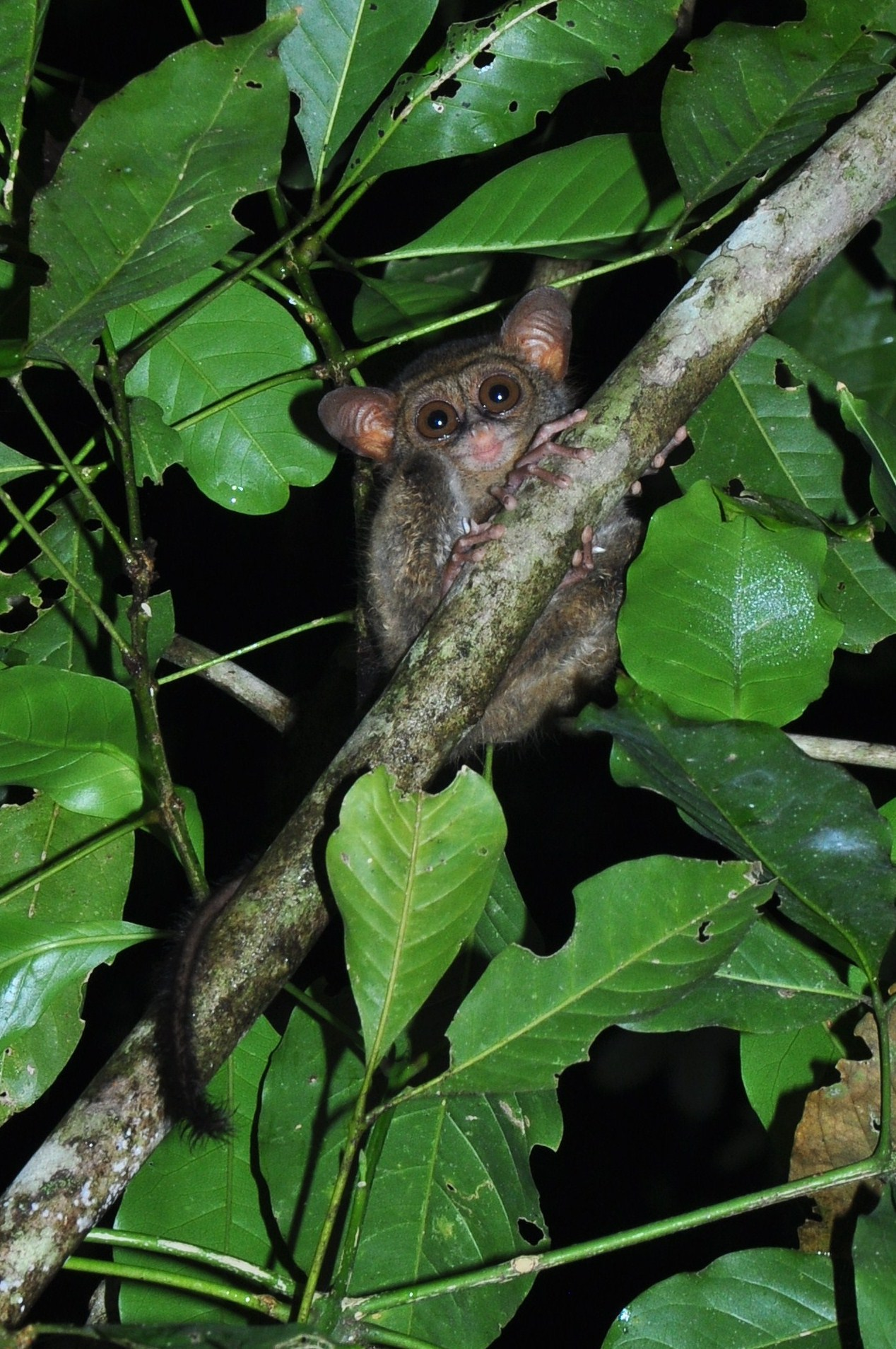 Spectral tarsier